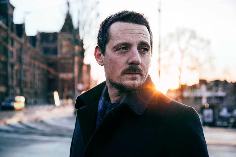 Sturgill Simpson photo from 2016.